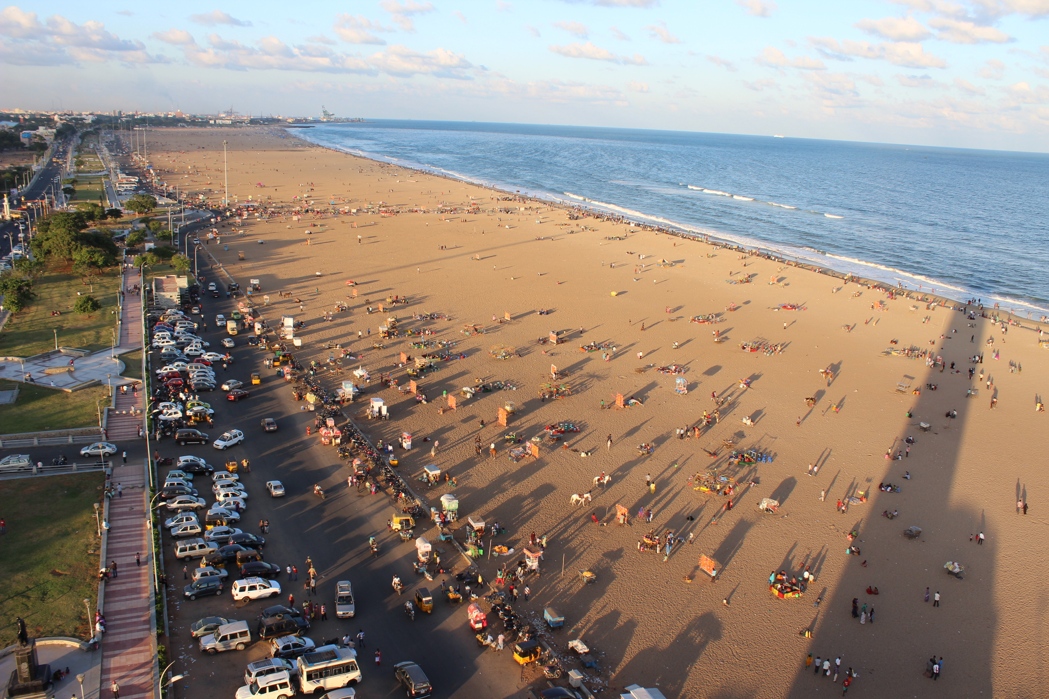 The view of India's longest urban beach, MARINA BEACH from Light house.